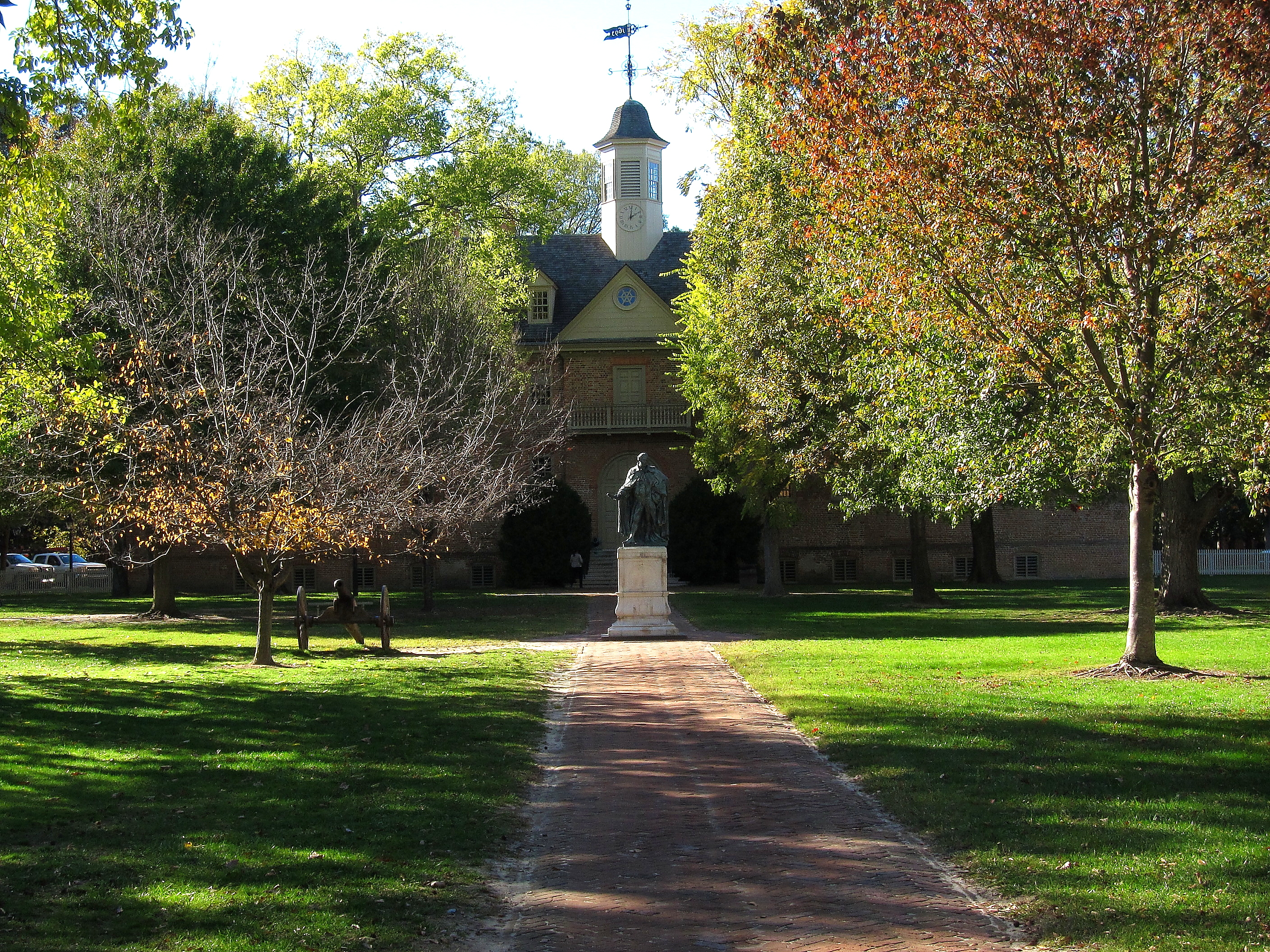 The Wren Building